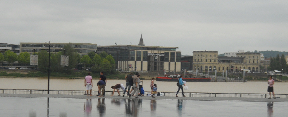 Waterfront Bordeaux-Bastide with former Gare d'Orleans station (now multiplex cinema)and river Garonne